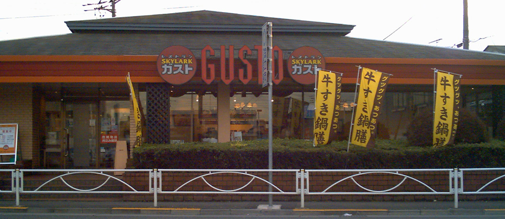 Gusto Restaurant in Japan photography day, 2006/11/21 photography person kici